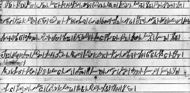 Sequoyah's original syllabary characters for the Cherokee language, showing both the abandoned script forms and the lithographic forms